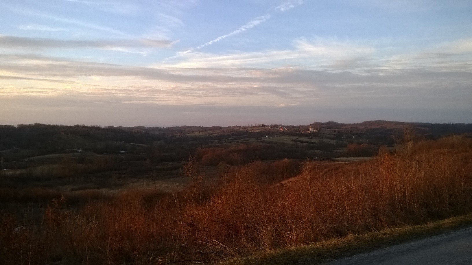 Banovina Region, Croatia